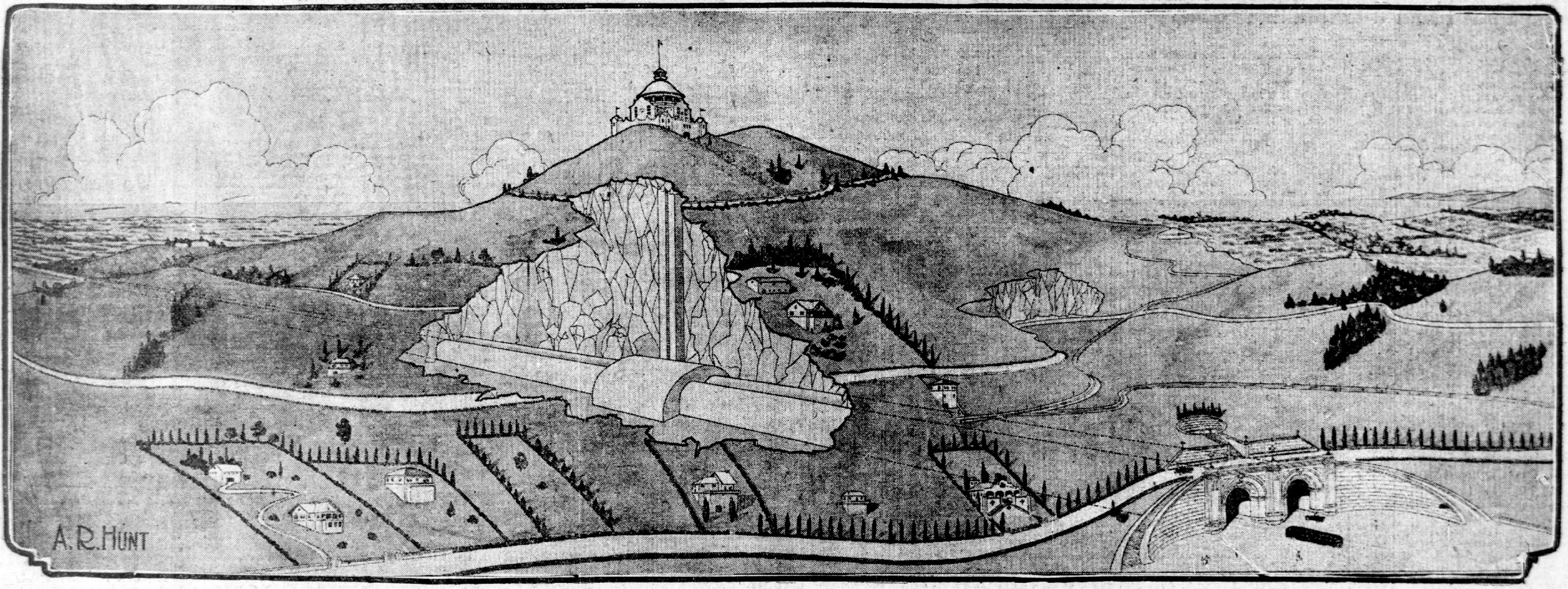 Illustration of Twin Peaks and tunnel cutaway. Signed "A.R. Hunt". Published in San Francisco Call, August 20, 1910.